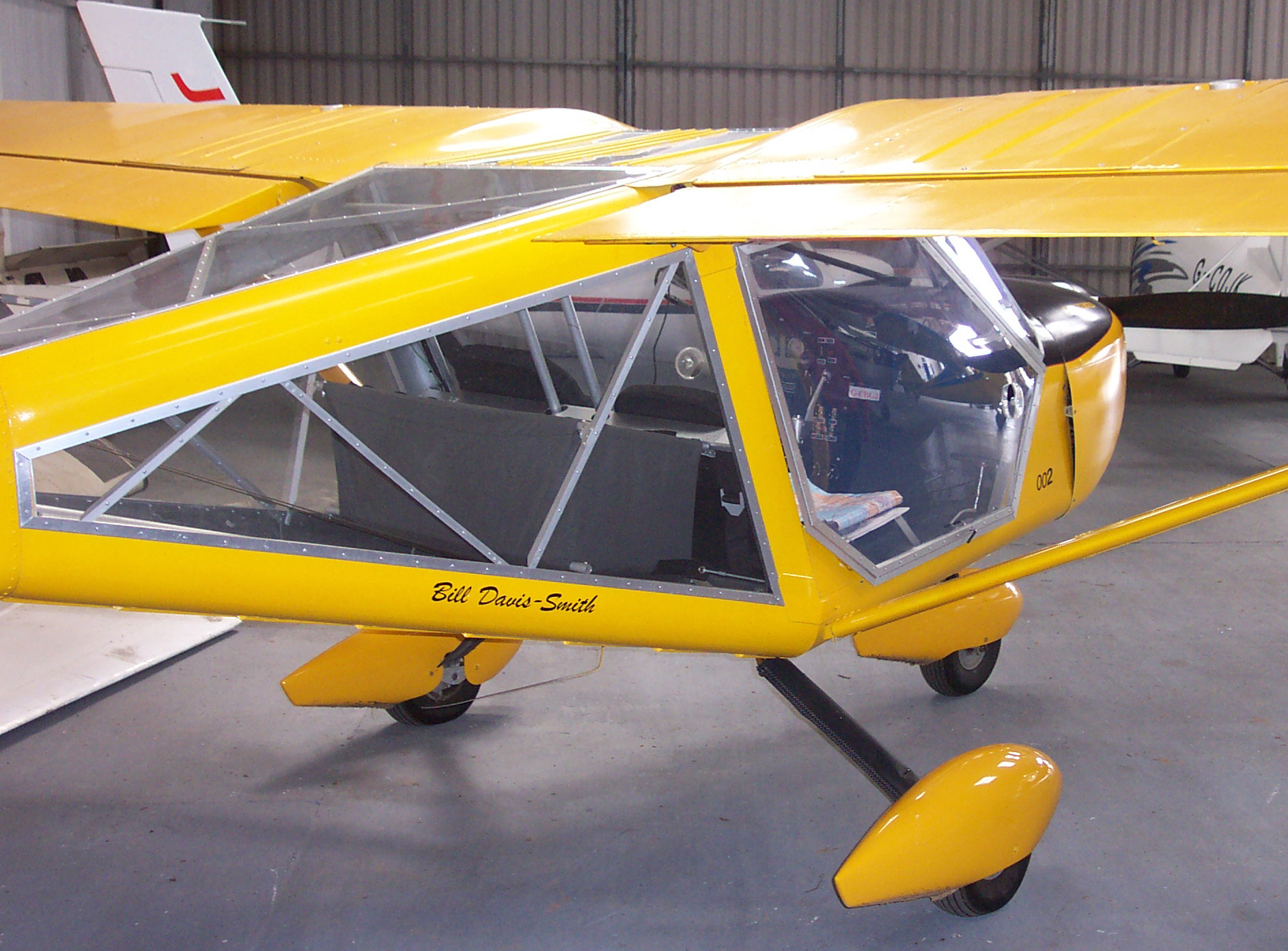 Aeroprakt A-22 Foxbat showing windows